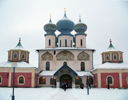 Tikhvin. Tikhvinsky Monastery. Uspensky Cathedral